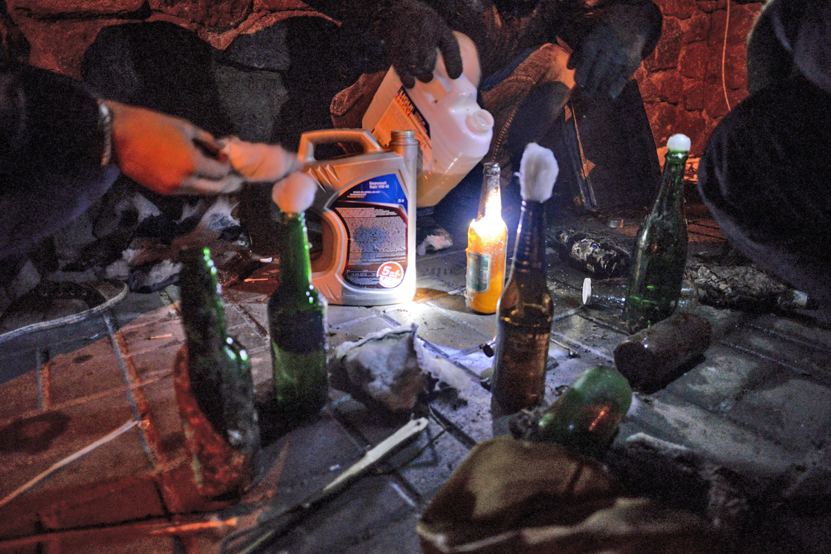 Radically oriented protesters preparing Molotov cocktailsto attack Interior troops positions. Dynamivska str. Euromaidan Protests. Events of Jan 19, 2014-3